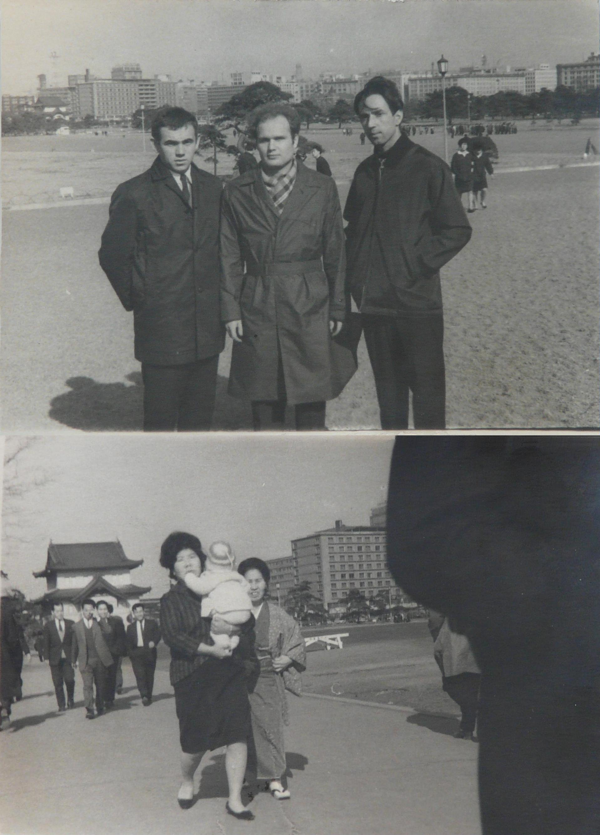 Crew members of mv Mettalurg Anosov in Japan on the upper photo and citizens of Japan on the lower photo. Both photos date 08 of March 1964 about.